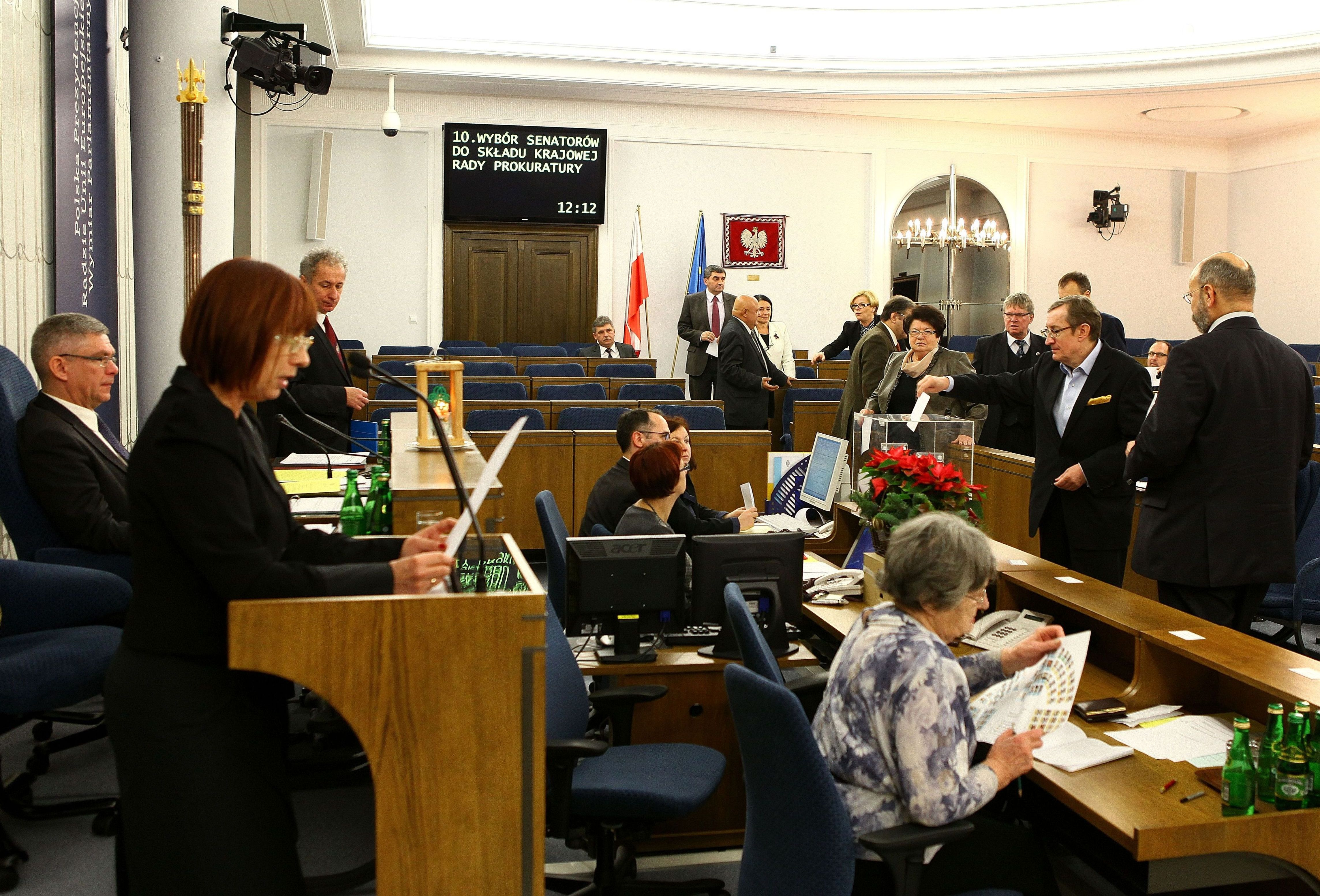 Election to the National Prosecution Council. 3rd sitting of the Polish Senate